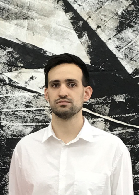 This is a headshot photo of Paul Weiner in front of a painting at Krupic Kersting Gallery